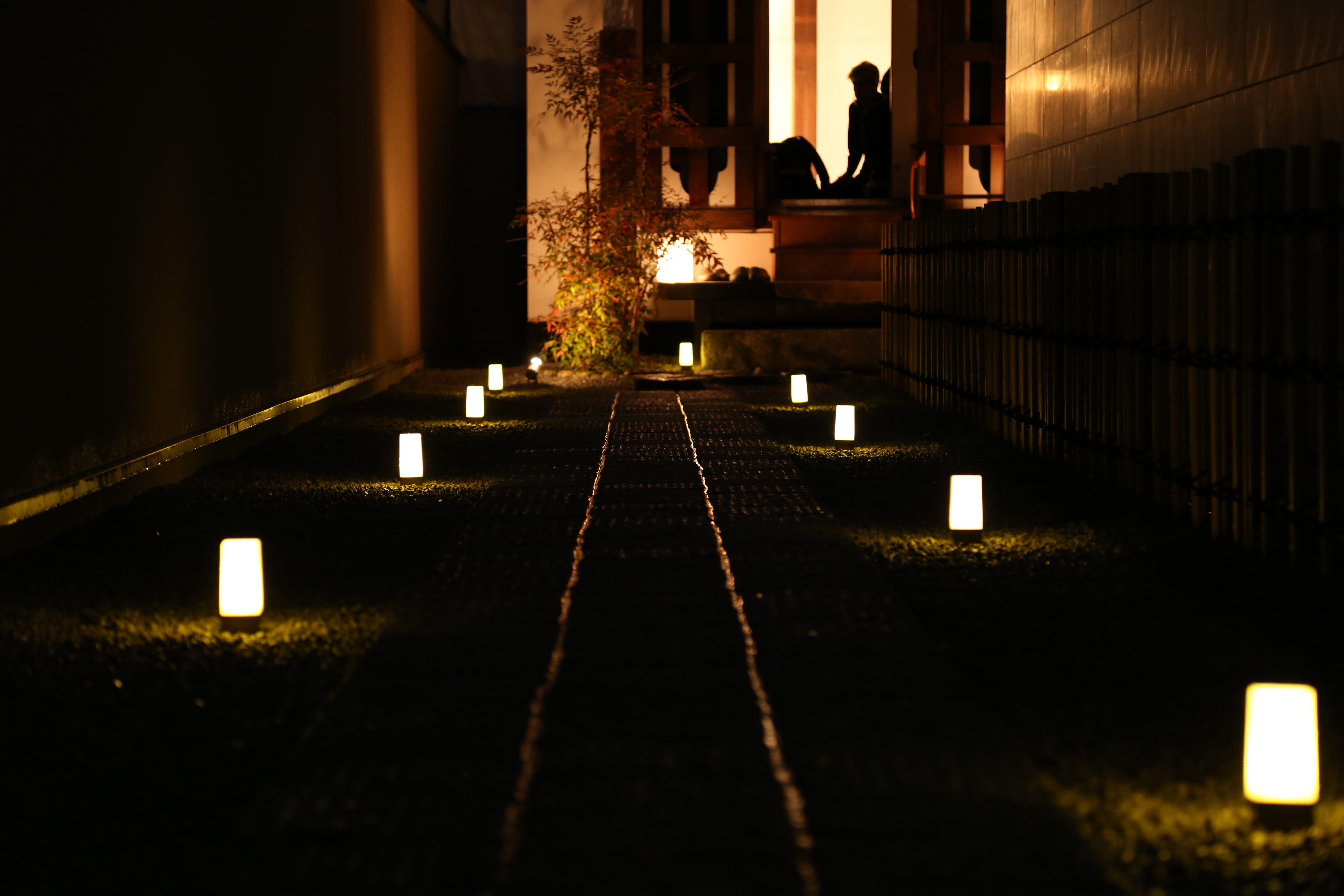 Entrance way to the Butoh-kan. Photo by Yuji Kohara